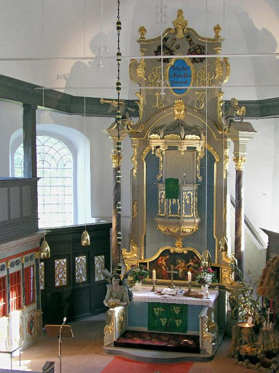 Breitenberg,Schleswig-Holstein, Germany: church,altar with pulpit, photo 2007